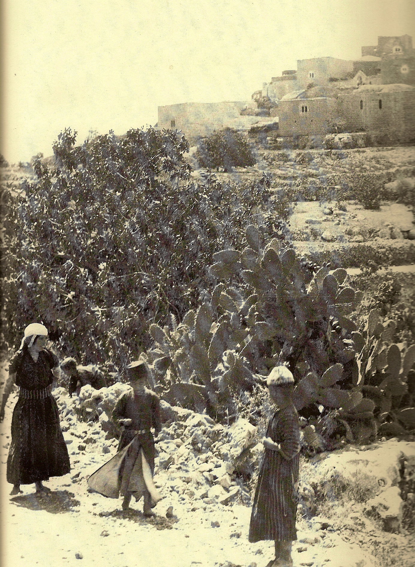 Al-Jib, near Beitunia, north west of Jerusalem, 1938-9.